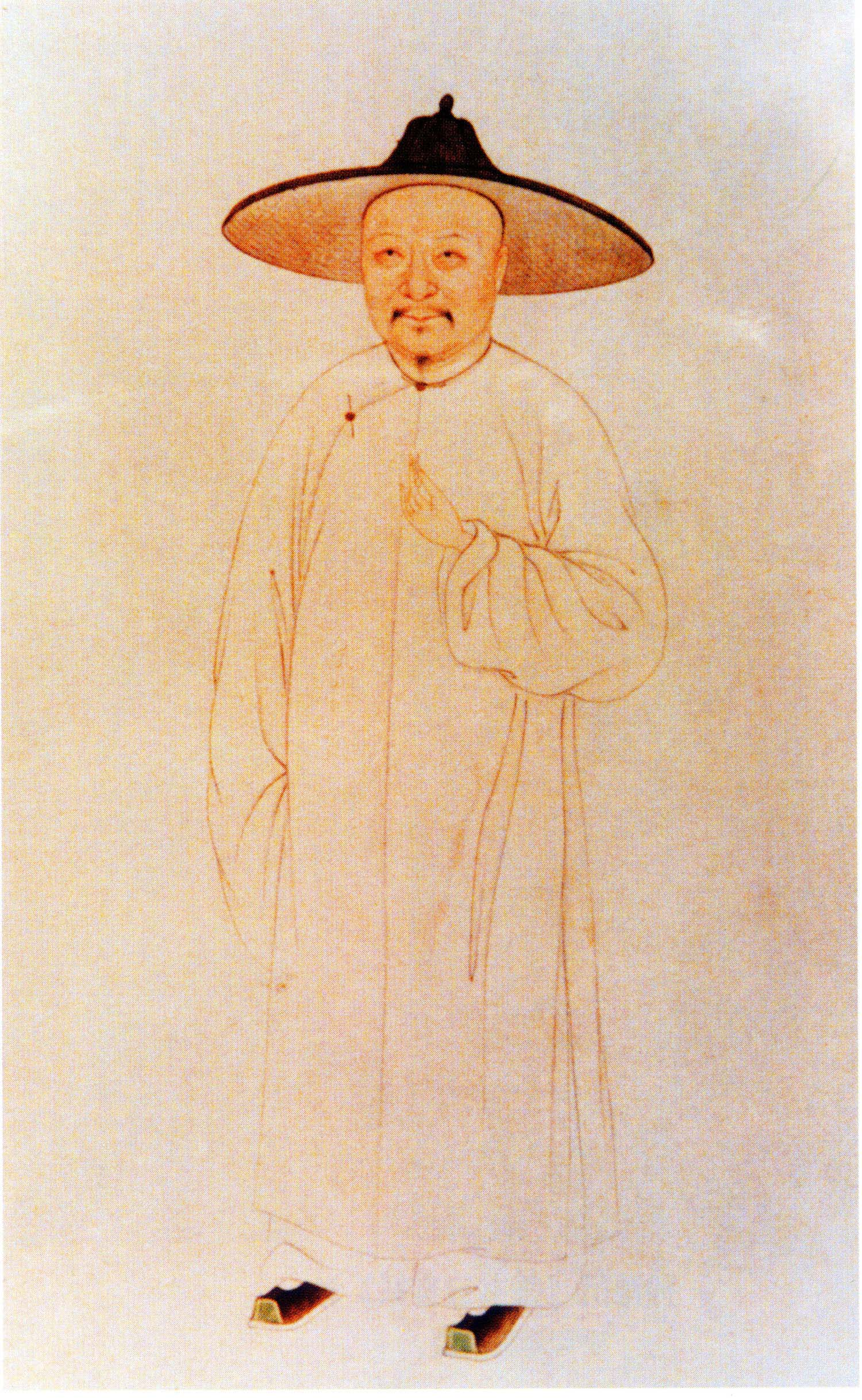 WANG Zhong, politician and scholar of the Qing Dynasty.